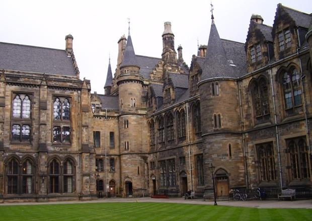 University Western Quadrangle, 2005.